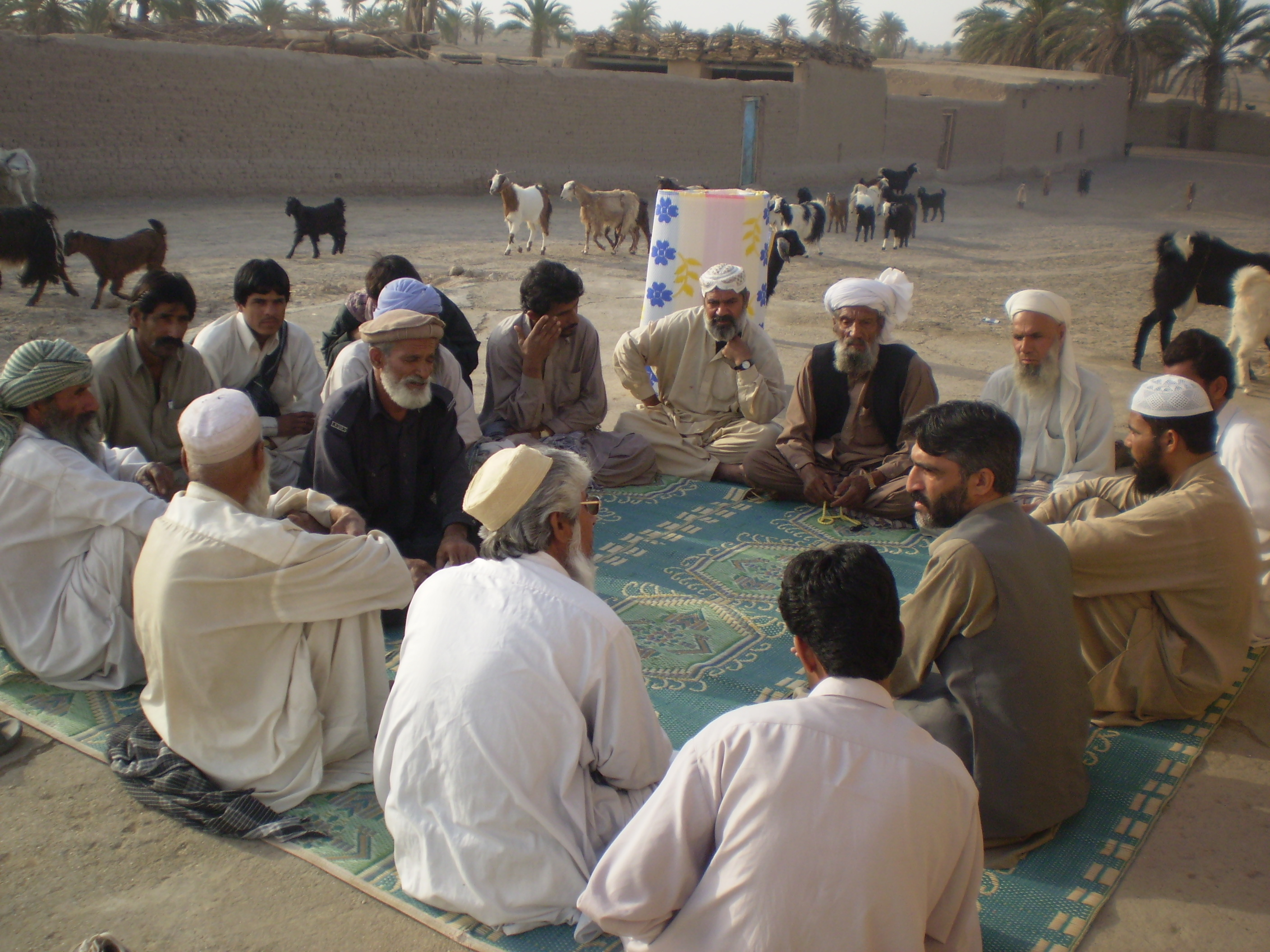 Visit to a village